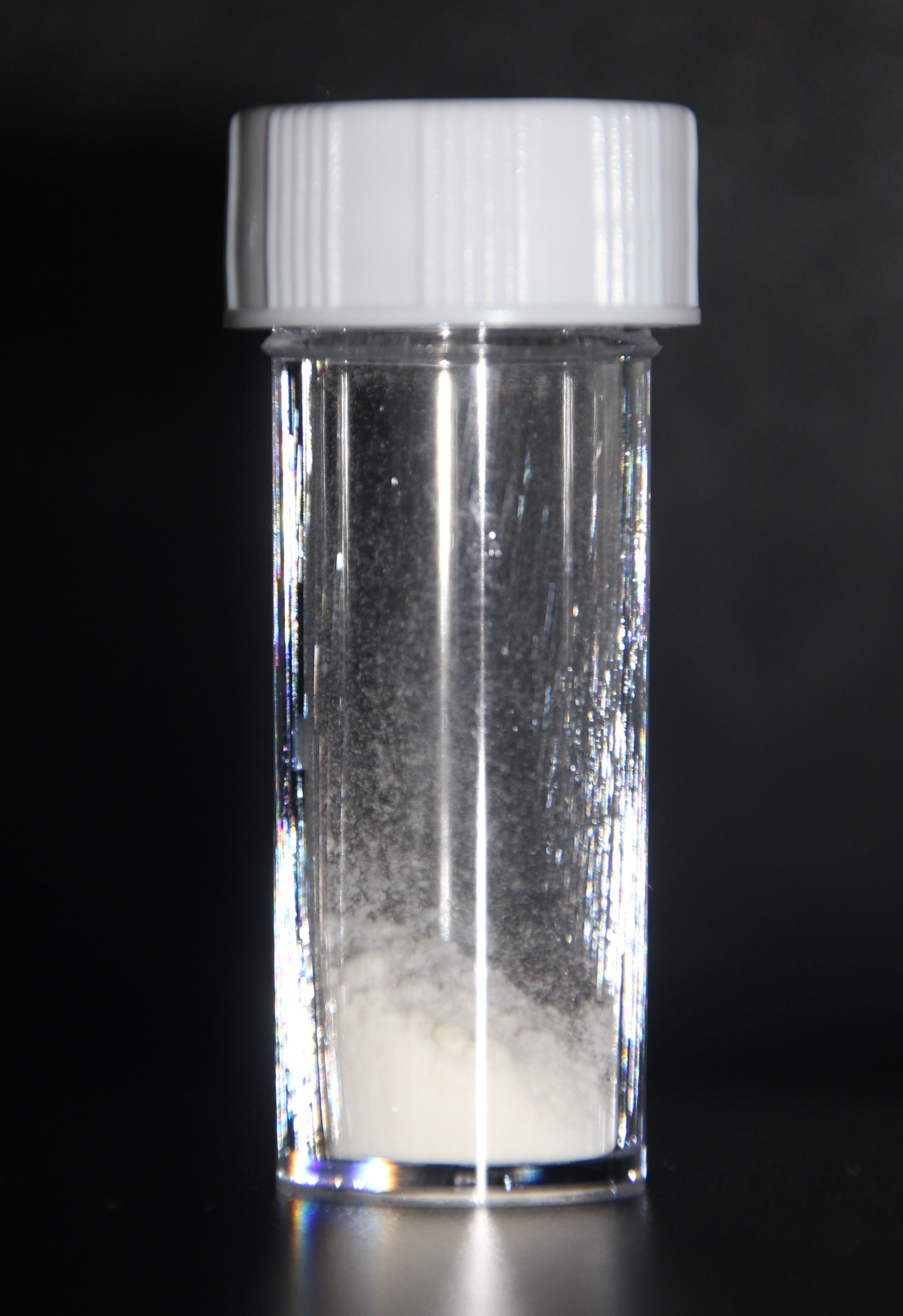 Sample of Cholesterol